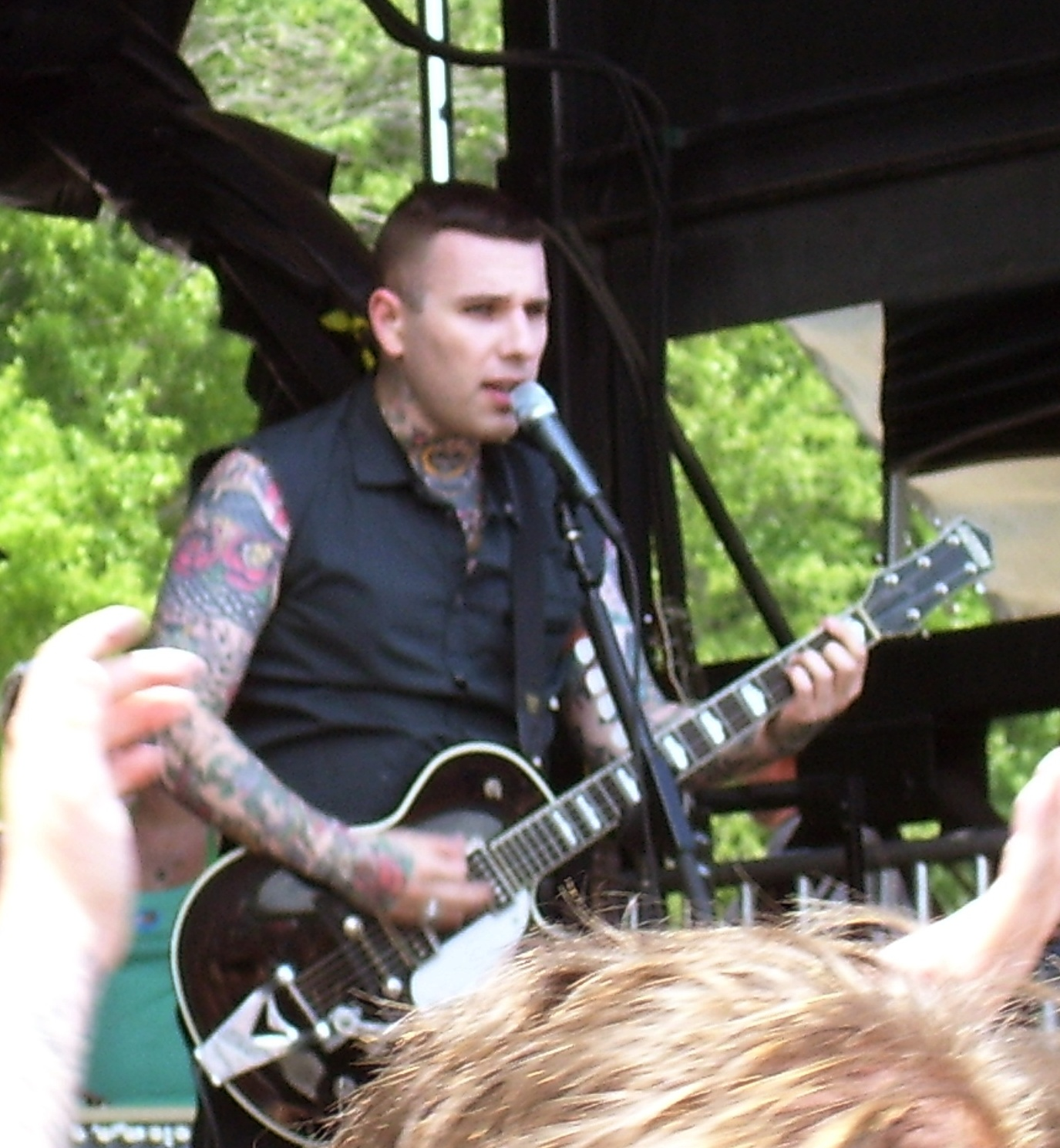 Nick 13 playing with his band Tiger Army on July 24th 2007 in Virginia Beach, VA.